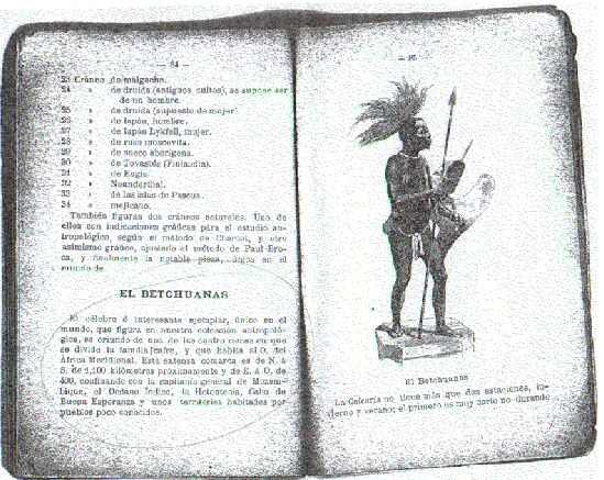 Picture of "El Negro" ("Negre de Banyoles", or "The Negro of Banyoles") published by Francesc Darder in a booklet for Barcelona Universal Exhibition at 1888.